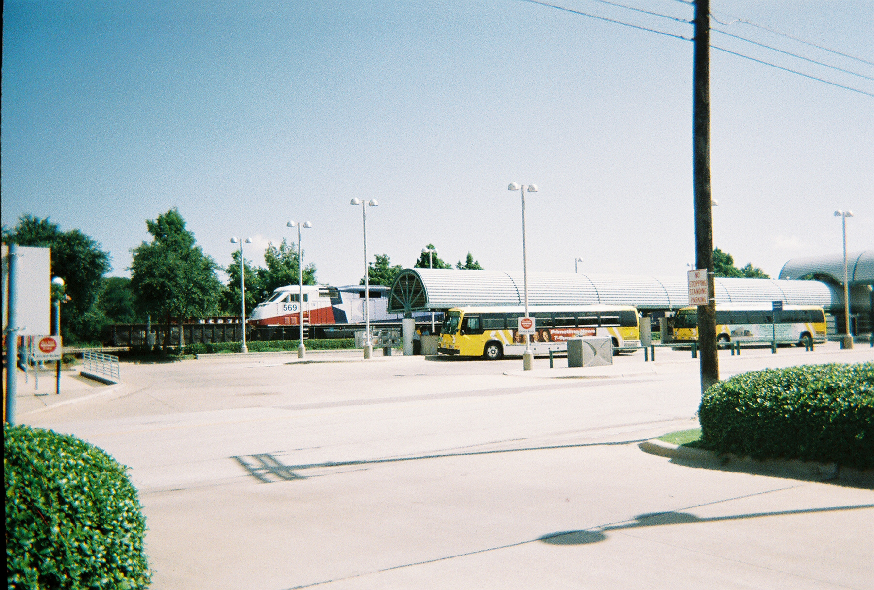 Buses and train awaiting departures at South Irving Station.